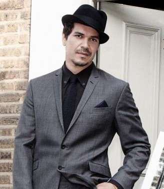 Jake Nava 2012 in London, UK